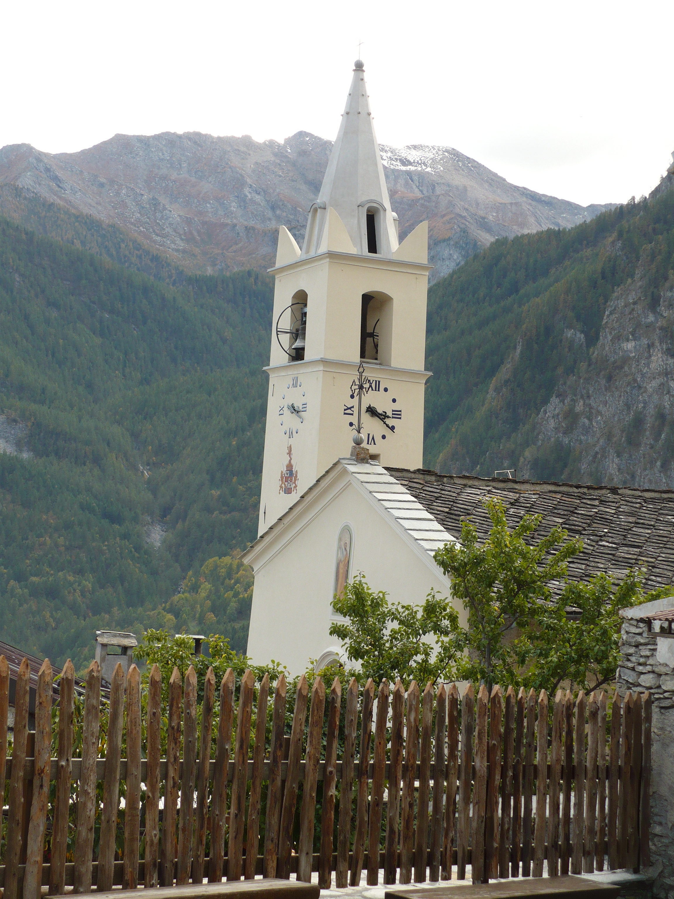 Church of Usseaux - Val Chisone - Province of Turin - Italy